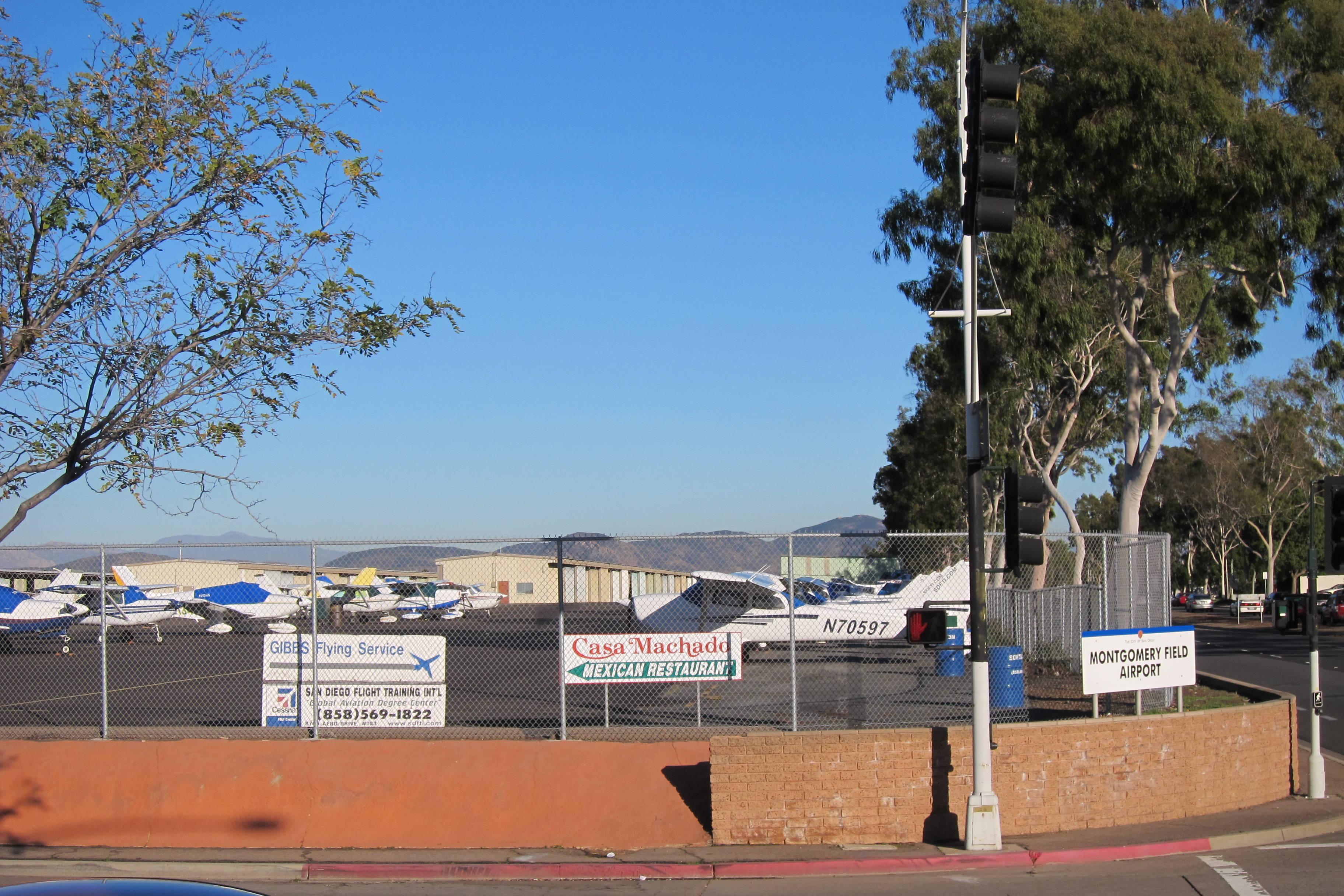 Corner of entrance to Montgomery Field, San Diego, CA.